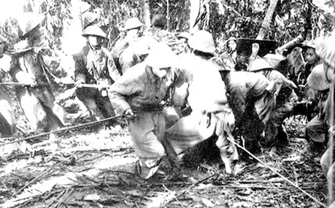 Vietnam artillery in Dien Bien Phu